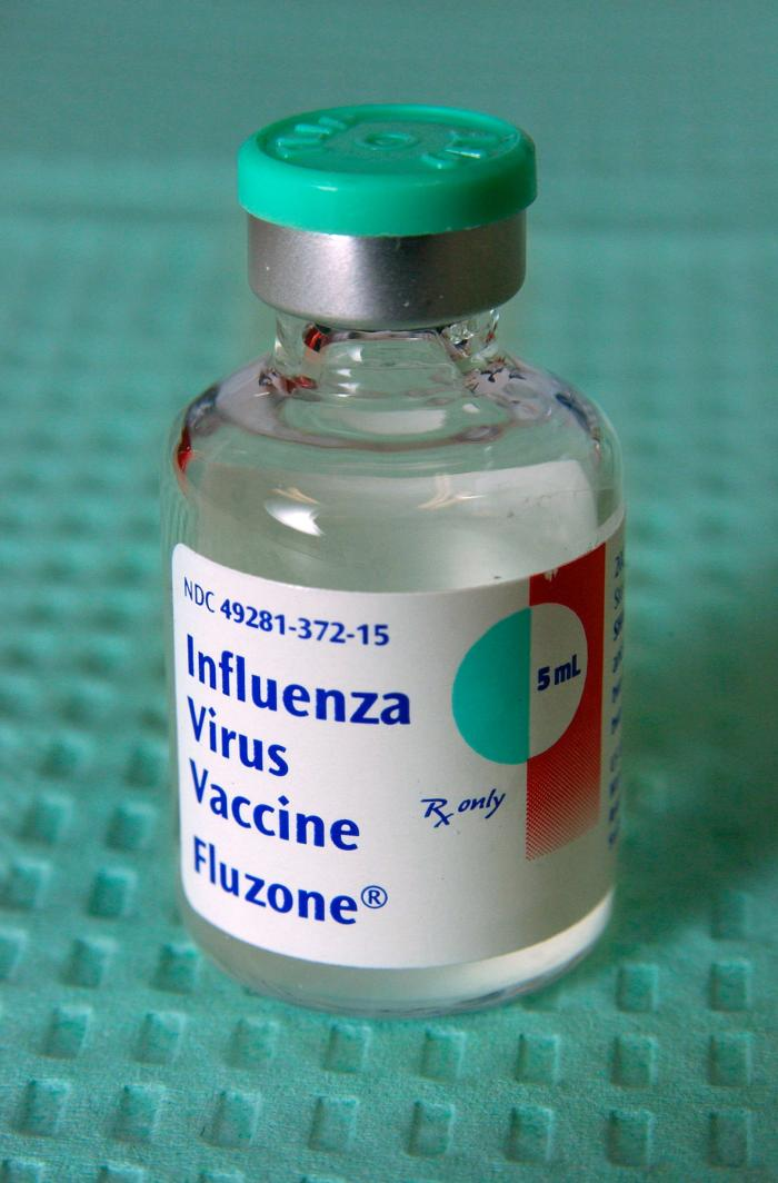 This is a 5 ml. vial containing the Influenza Virus Vaccine, Fluzone®, distributed by Aventis Pasteur, USA. According to the product text, the optimal vaccination period is October through November, for influenza activity usually begins in November or December, peaking in late December, and is strongly recommended for people 6 mo. of age or older.